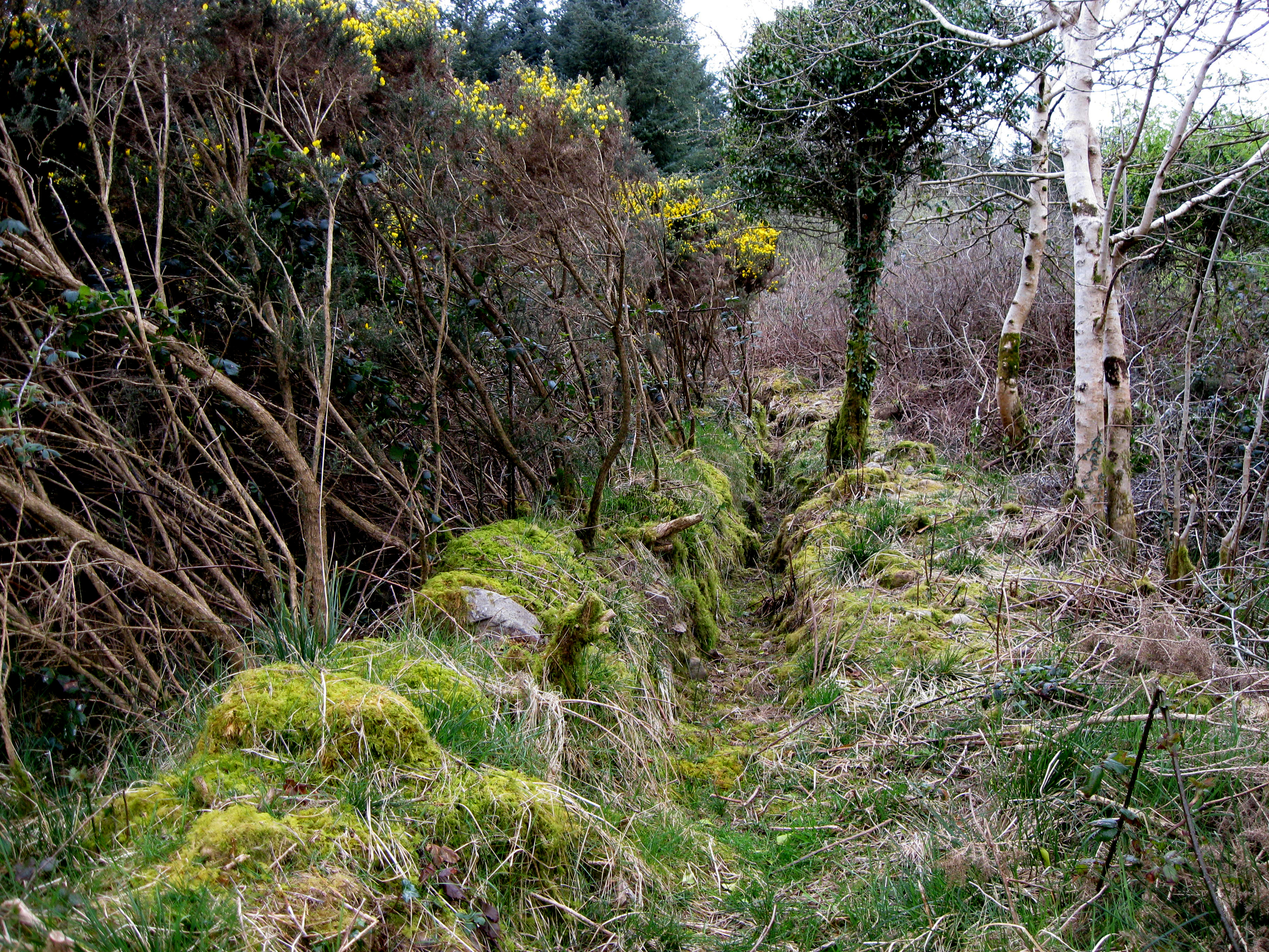 Ruins of the Church